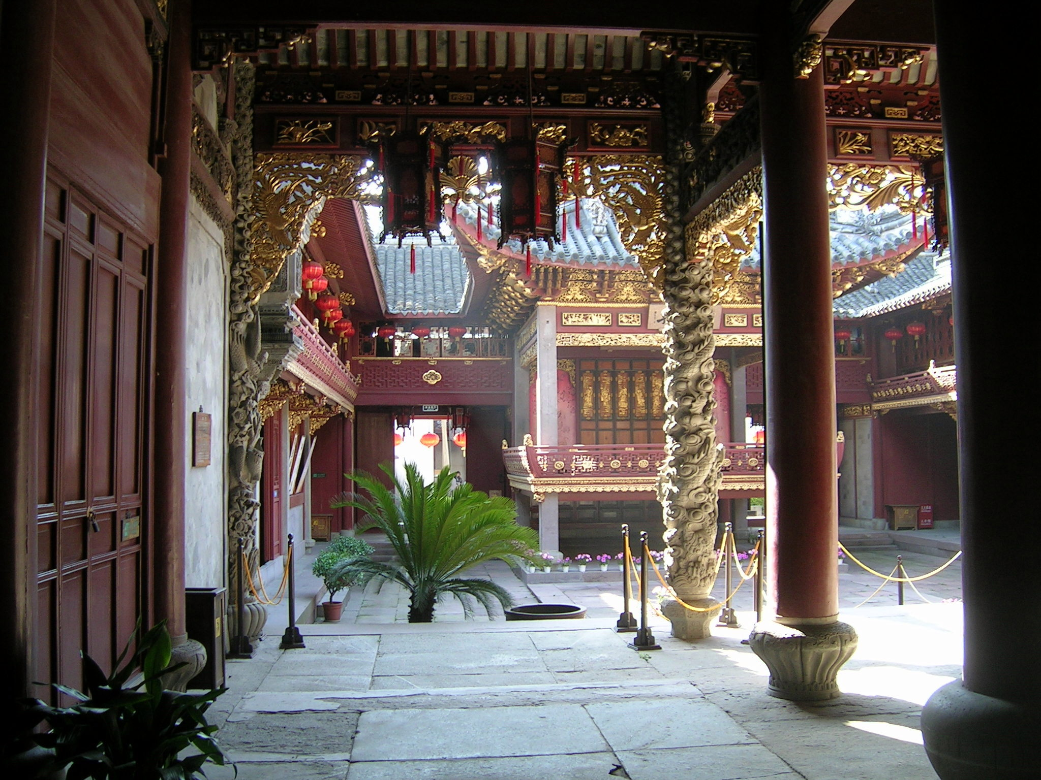 Qingan Association Hall in Ningbo, China